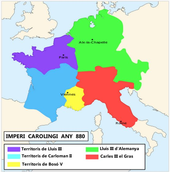 Treaty of Ribemont